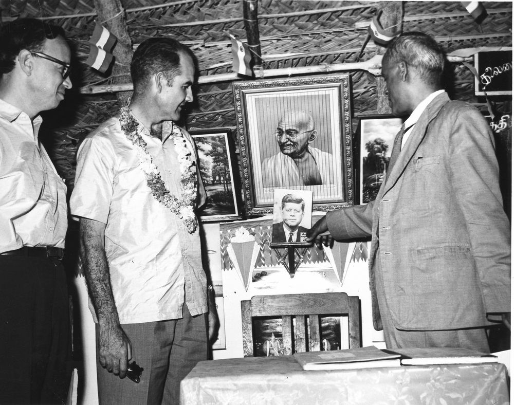 Special Assistant to the President Arthur M. Schlesinger, Jr., and Director, Food for Peace, George S. McGovern with an unidentified man in a village schoolhouse south of Madras, India. The unidentified man is pointing to a photograph of President John F. Kennedy which is enshrined beneath a photograph of Mahatma Gandhi. Arthur Schlesinger sent the photograph to President Kennedy with a letter dated February 15, 1962. The following is stamped on the verso of the photograph: "Ref. No: , Photo Lab, USIS, Madras."